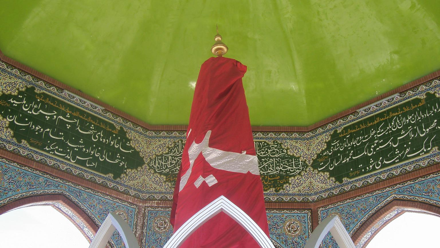 Yademan -e- shohada tower, Bonab, Iran